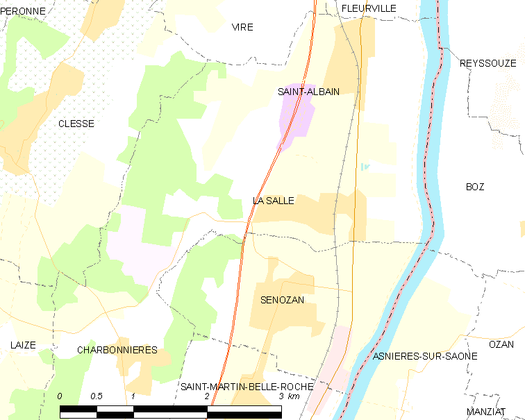 Map of French municipality